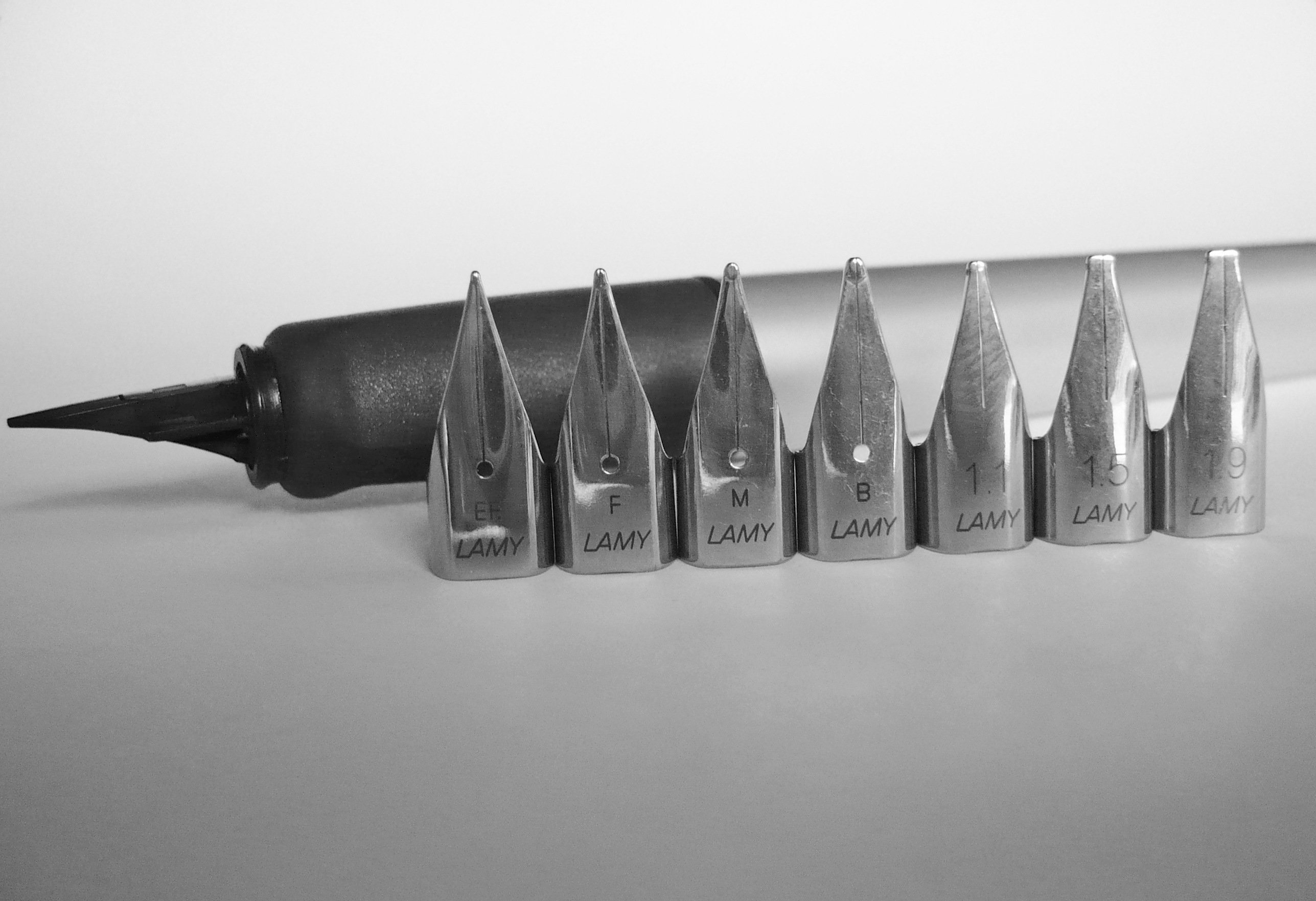 Lamy Z 50 stainless steel fountain pen nibs in front of a Lamy Nexx fountain pen. Z 50 nibs can be interchanged by the user and are available in Extra Fine (EF), Fine (F), Medium (M), Broad (B) line width nibs in steel and black finish and 1.1 mm (1.1), 1.5 mm (1.5) and 1.9 mm (1.9) calligraphic stub italic nibs which are only available in steel finish. The Lamy Nexx fountain pen is intended for students/young writers and features a non round soft grip section optimized to be held with a 'tripod pen grip'.